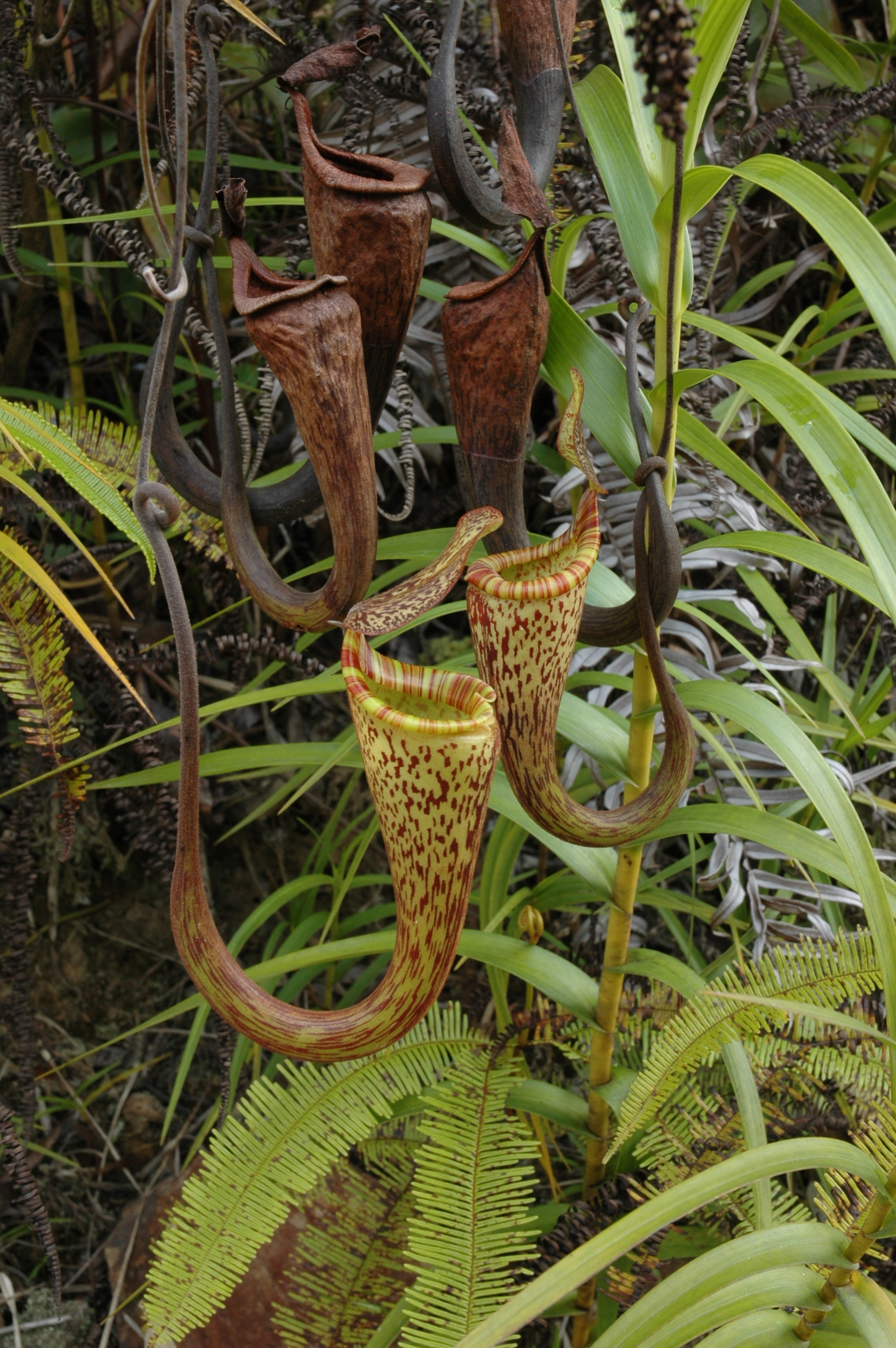 Nepenthes vogelii Kelabit Highlands Sarawak by Jeremiah Harris